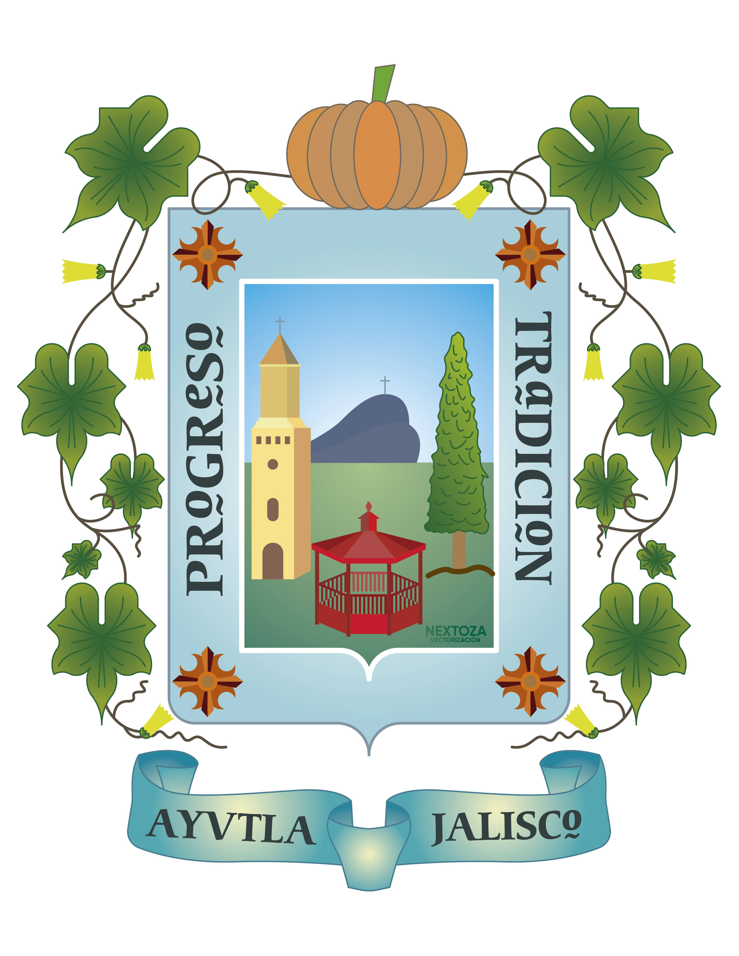 Escudo de Armas del Municipio de Ayutla creado por el Prof. Domingo Salvador Guitrón Villegas